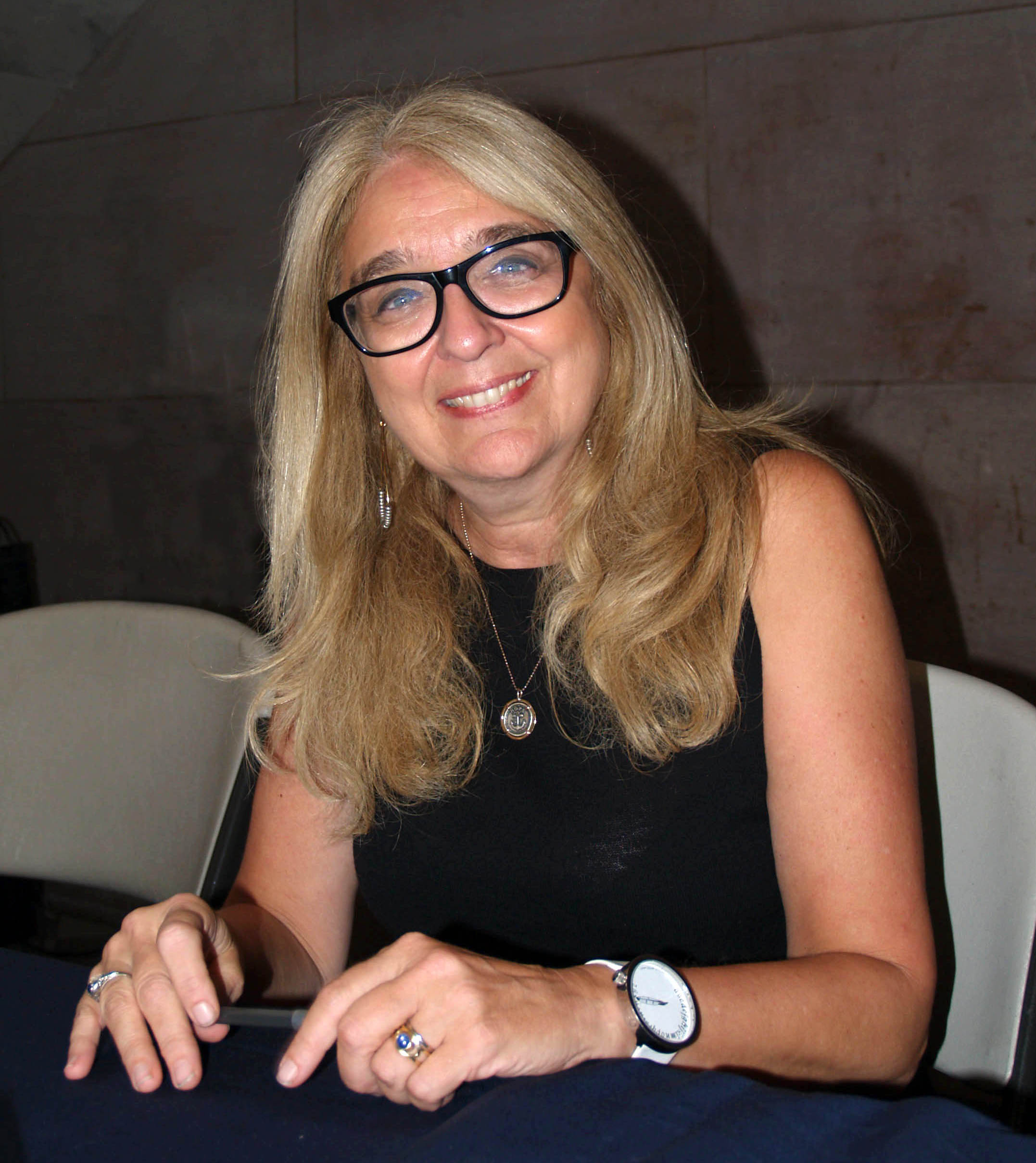 Novelist Ann Hood at the 2014 Brooklyn Book Festival. This photo was created by Luigi Novi. It is not in the public domain, and use of this file outside of the licensing terms is a copyright violation.